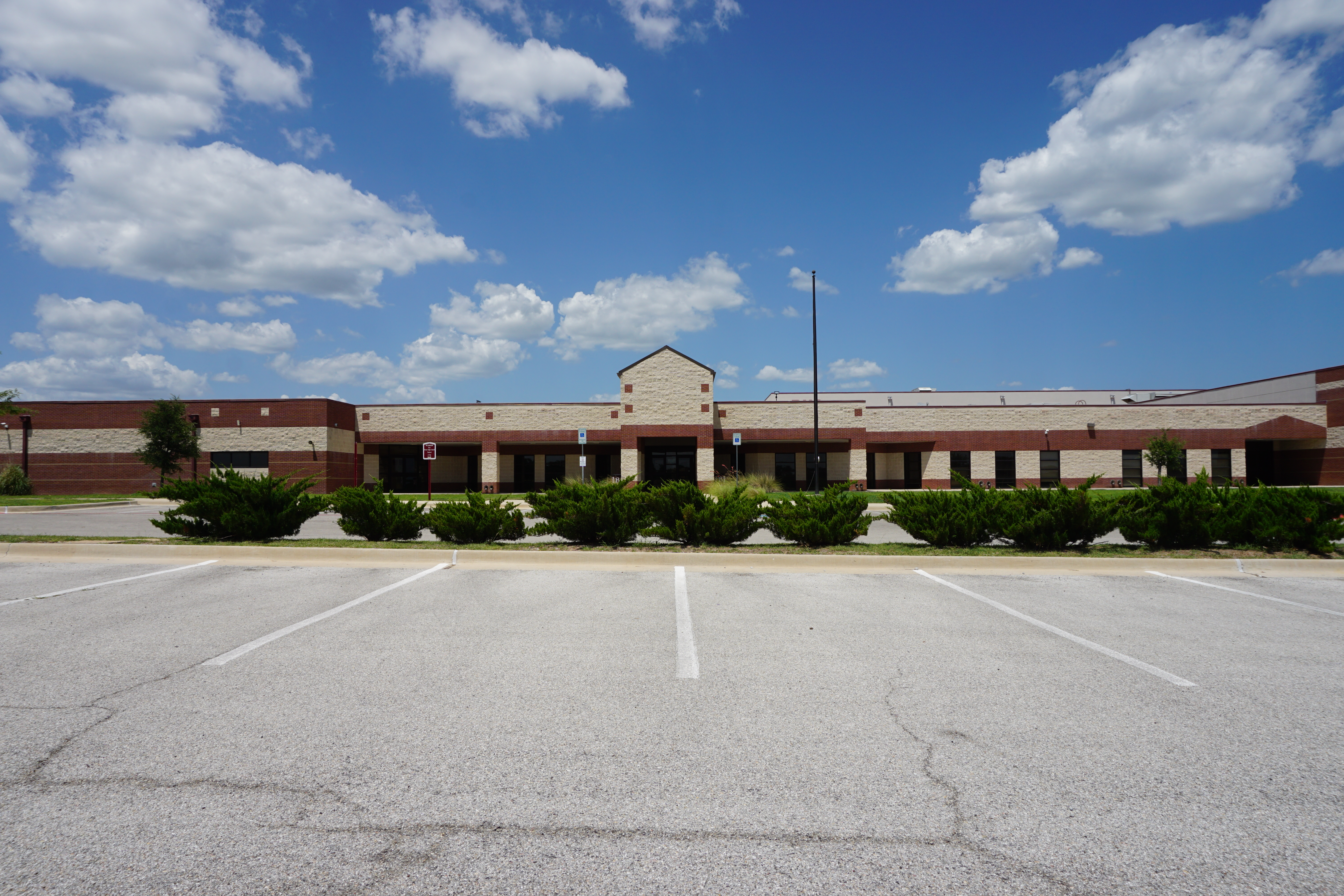 Bowie High School in Bowie, Texas (United States).